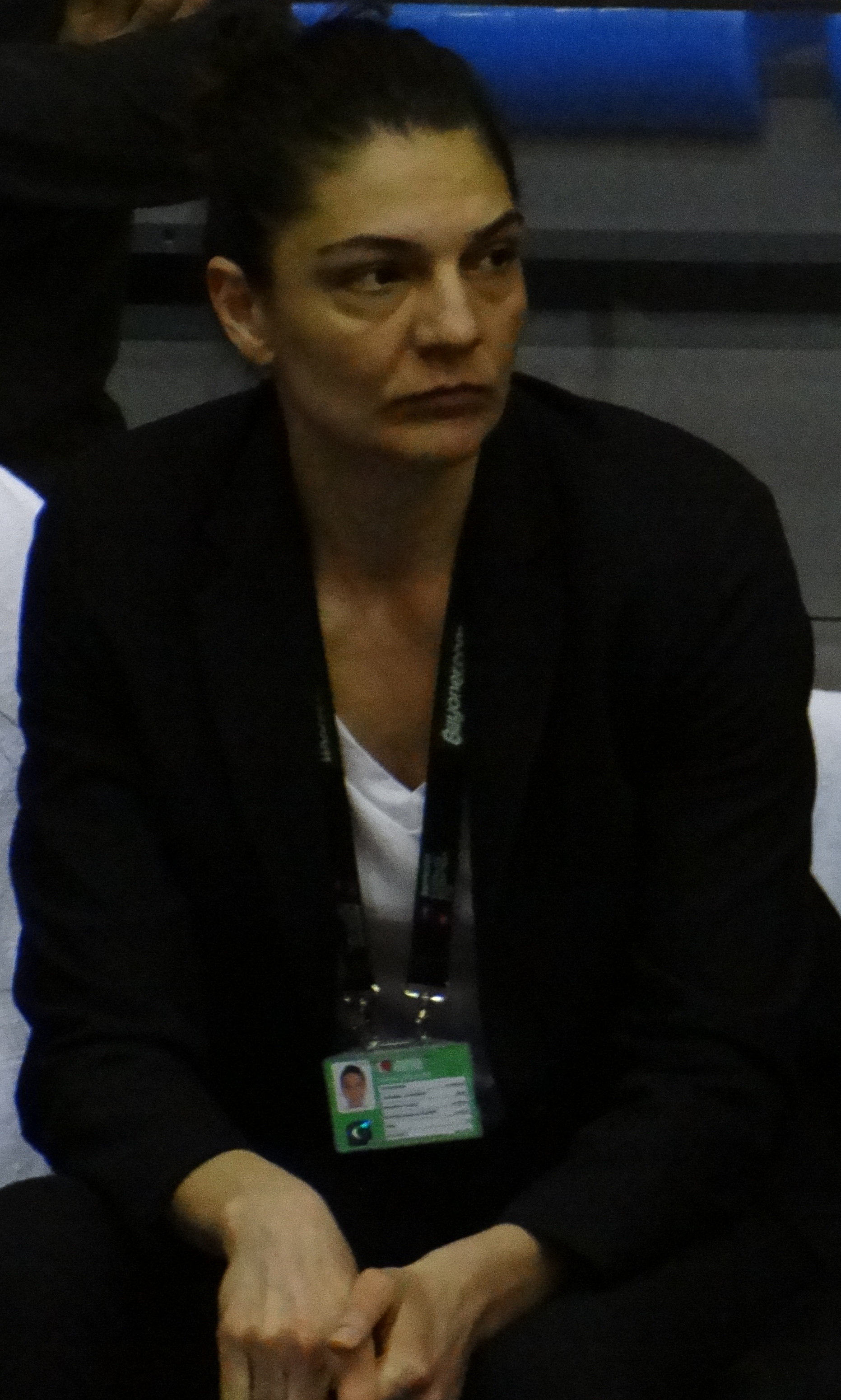 Nevriye Yılmaz Fenerbahçe Women's Basketball vs Galatasaray Women's Basketball TWBL 20180408